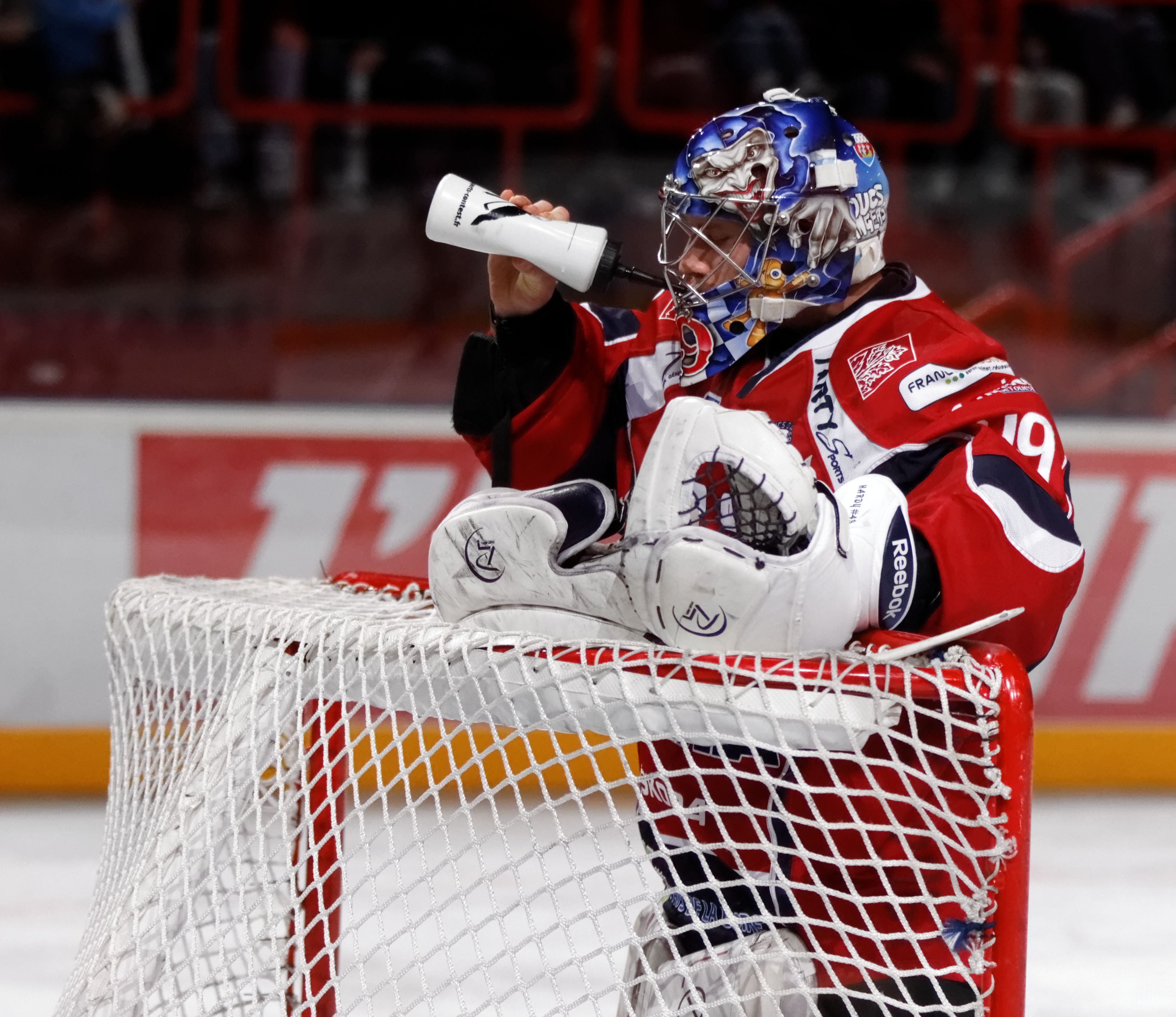 Final of the Ice Hockey French Cup 2013.